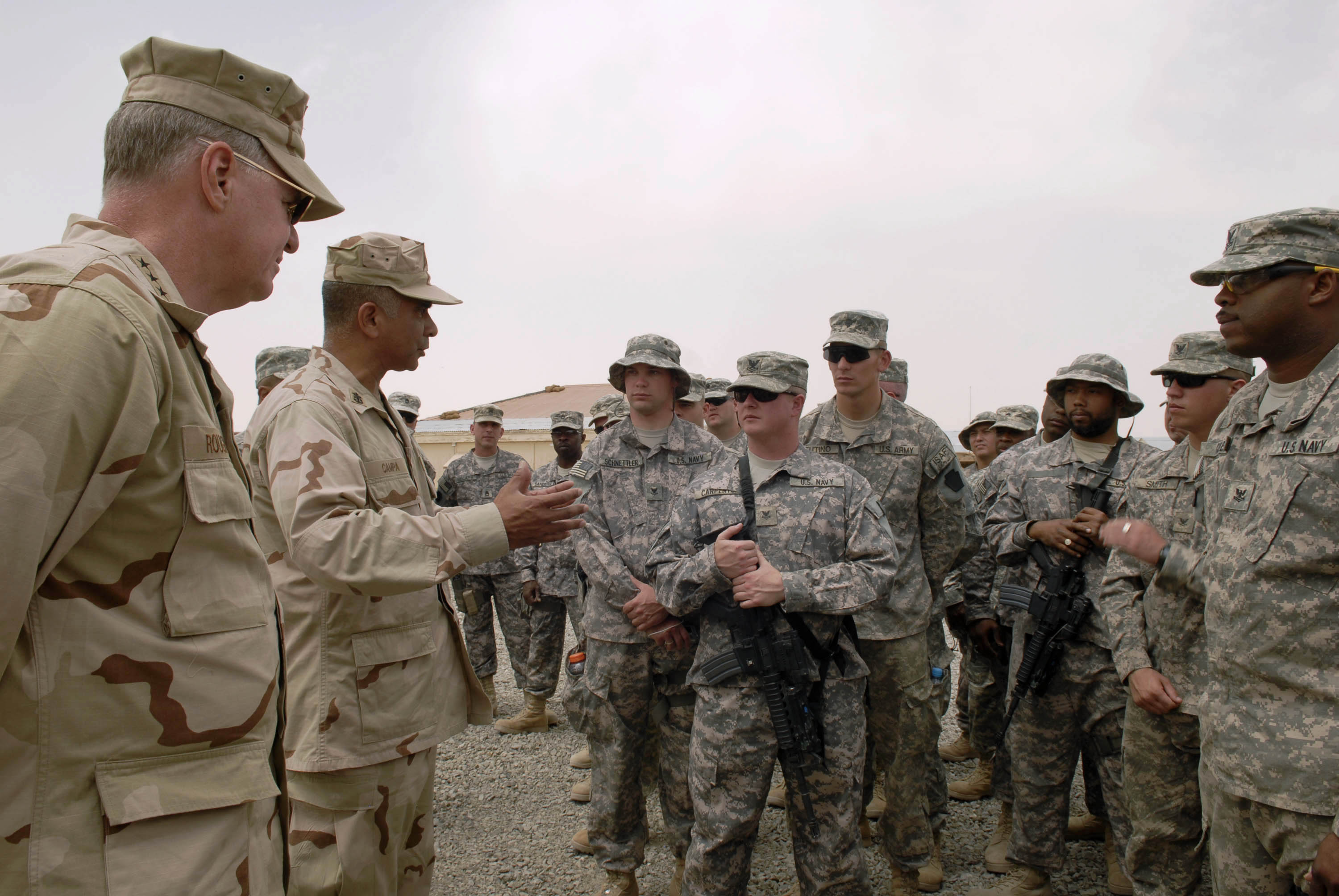 Chief of Naval Operations (CNO) Admiral Gary Roughead, left, and Master Chief Petty Officer of the Navy (MCPON) Joe R. Campa Jr. speak with Sailors, Marines and Soldiers during an all-hands call at Provincial Reconstruction Team (PRT) Sharana, Afghanistan. Roughead and Campa traveled throughout the Central Command Area of Operation to visit Sailors, thank them for their contributions and hear their thoughts firsthand.